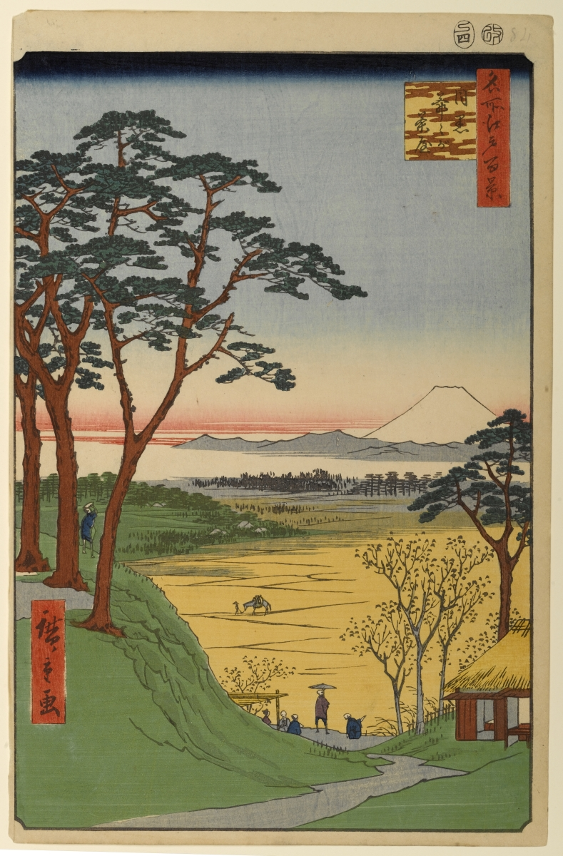 Part of the series One Hundred Famous Views of Edo, no. 084, part 3: Autumn.